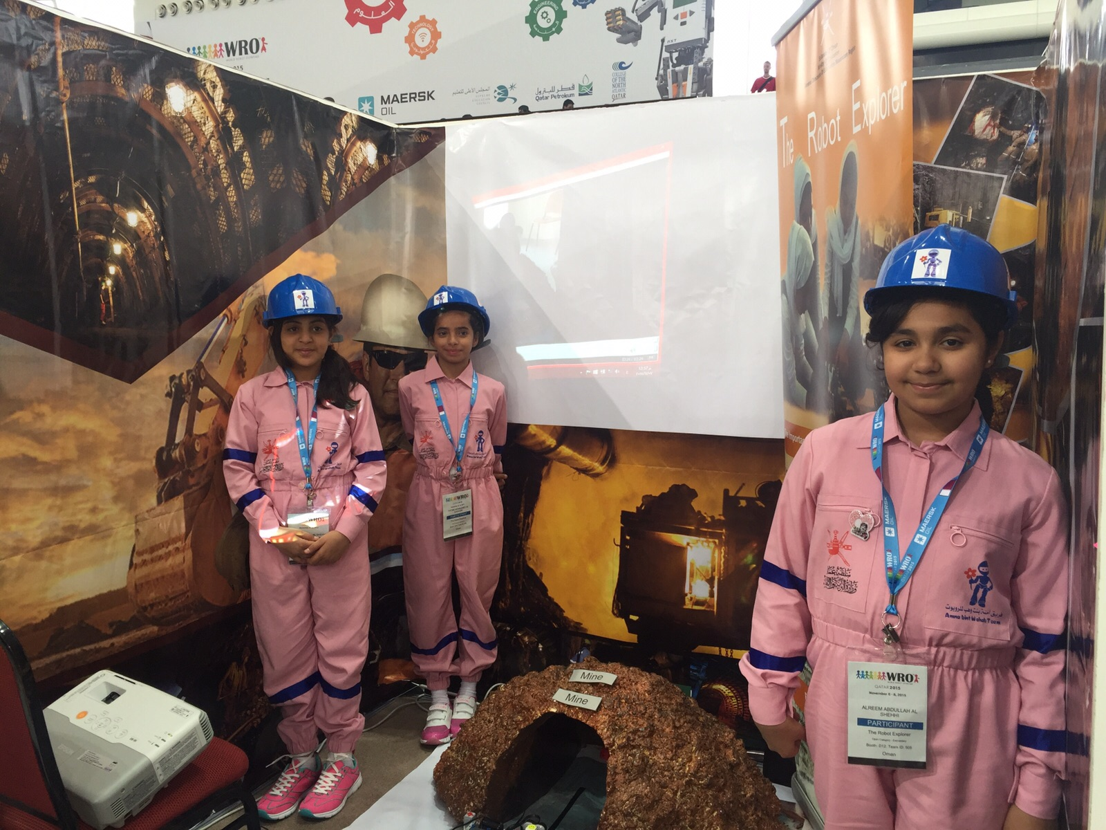 المساابقة المفتوحة - سلطنة عمان